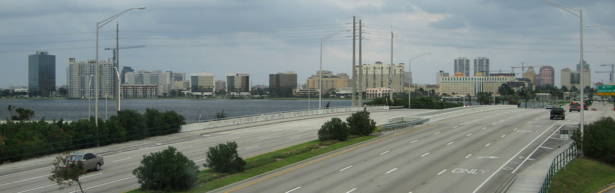 I took this photo on the southbound on ramp to I-95 from westbound Okeechobee Blvd.